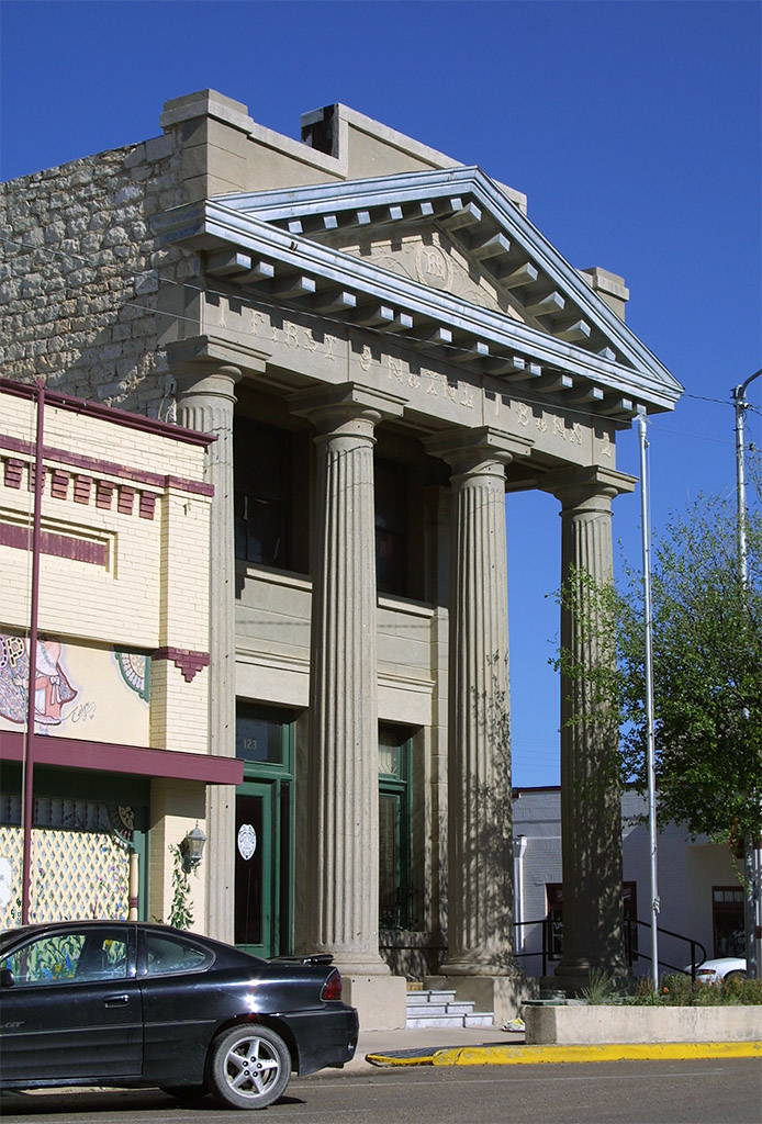 The old First National Bank building in Fort Stockton, Texas - taken by me in April 2004